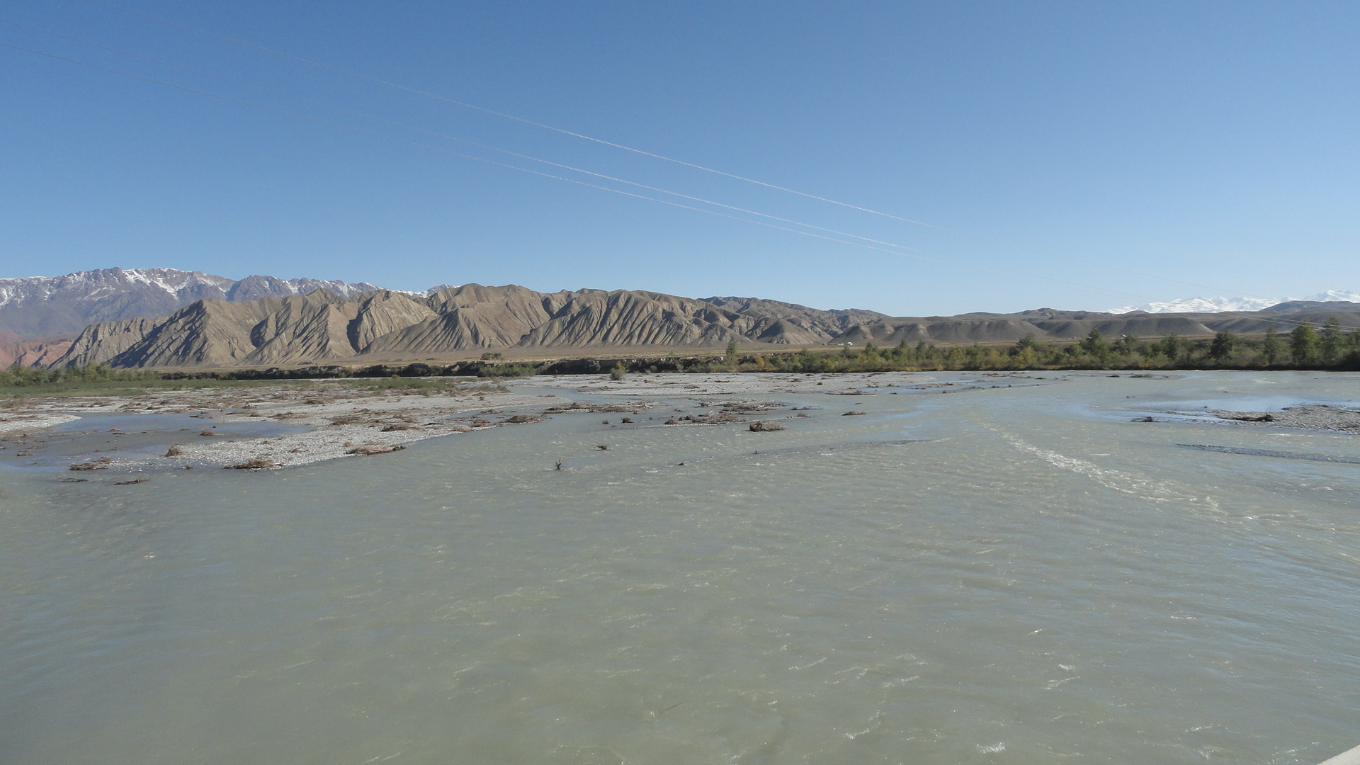 At-Bashi River, Naryn Province, Kyrgyzstan